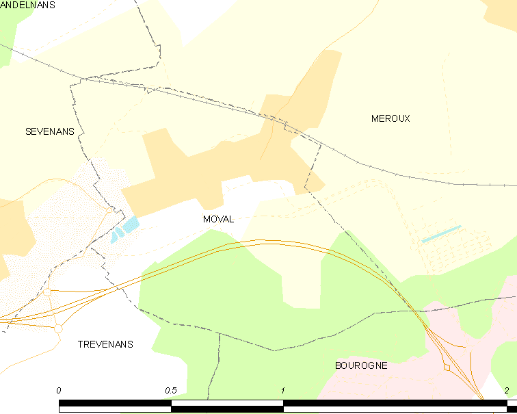 Map of French municipality Moval